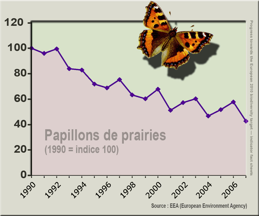 Grassland butterflies / population index (1990 = 100) ; source : EEA (European Environment Agency) (Progress towards the European 2010 biodiversity target, 2010)